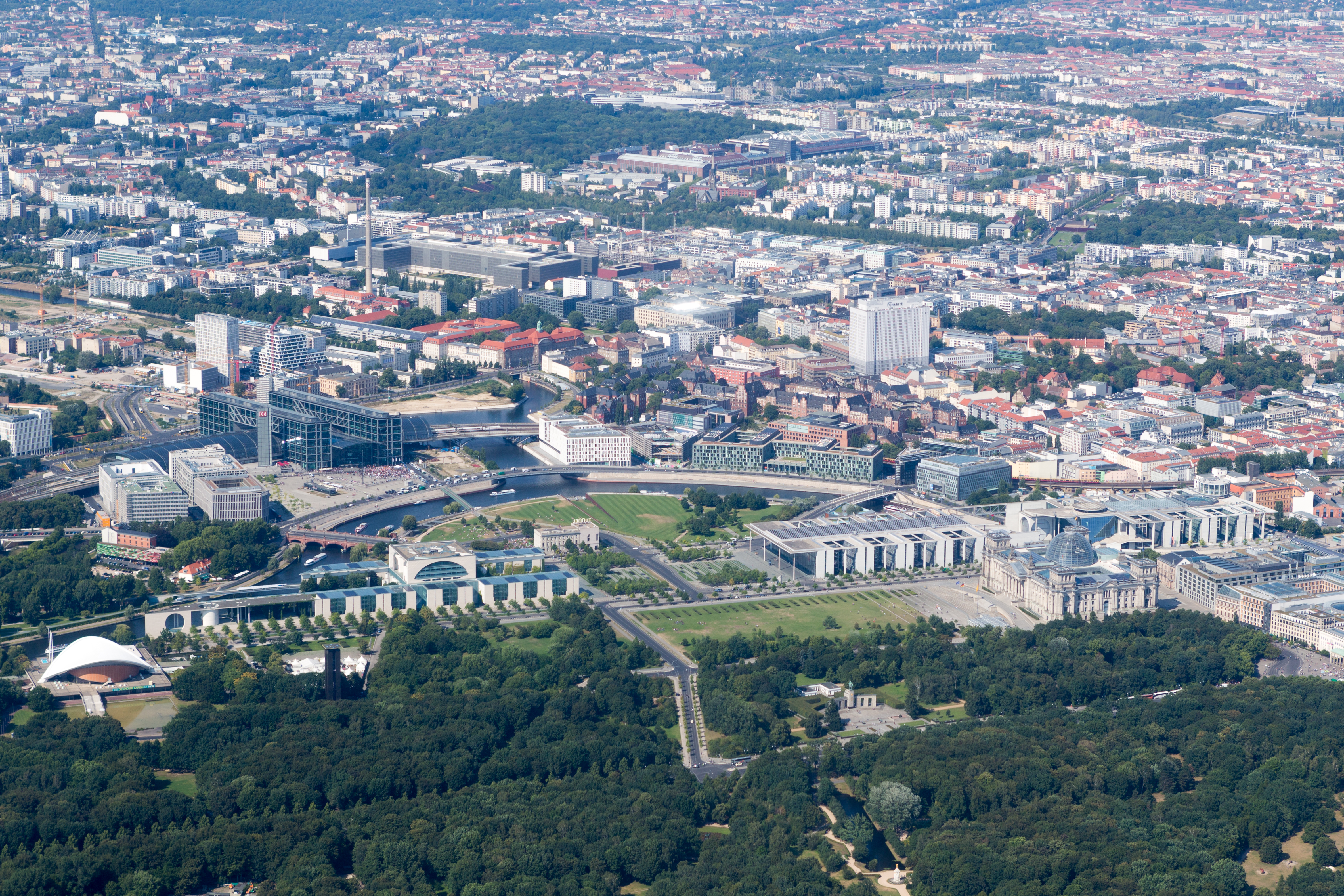 Aerial view of the governmental area of Berlin, 2016